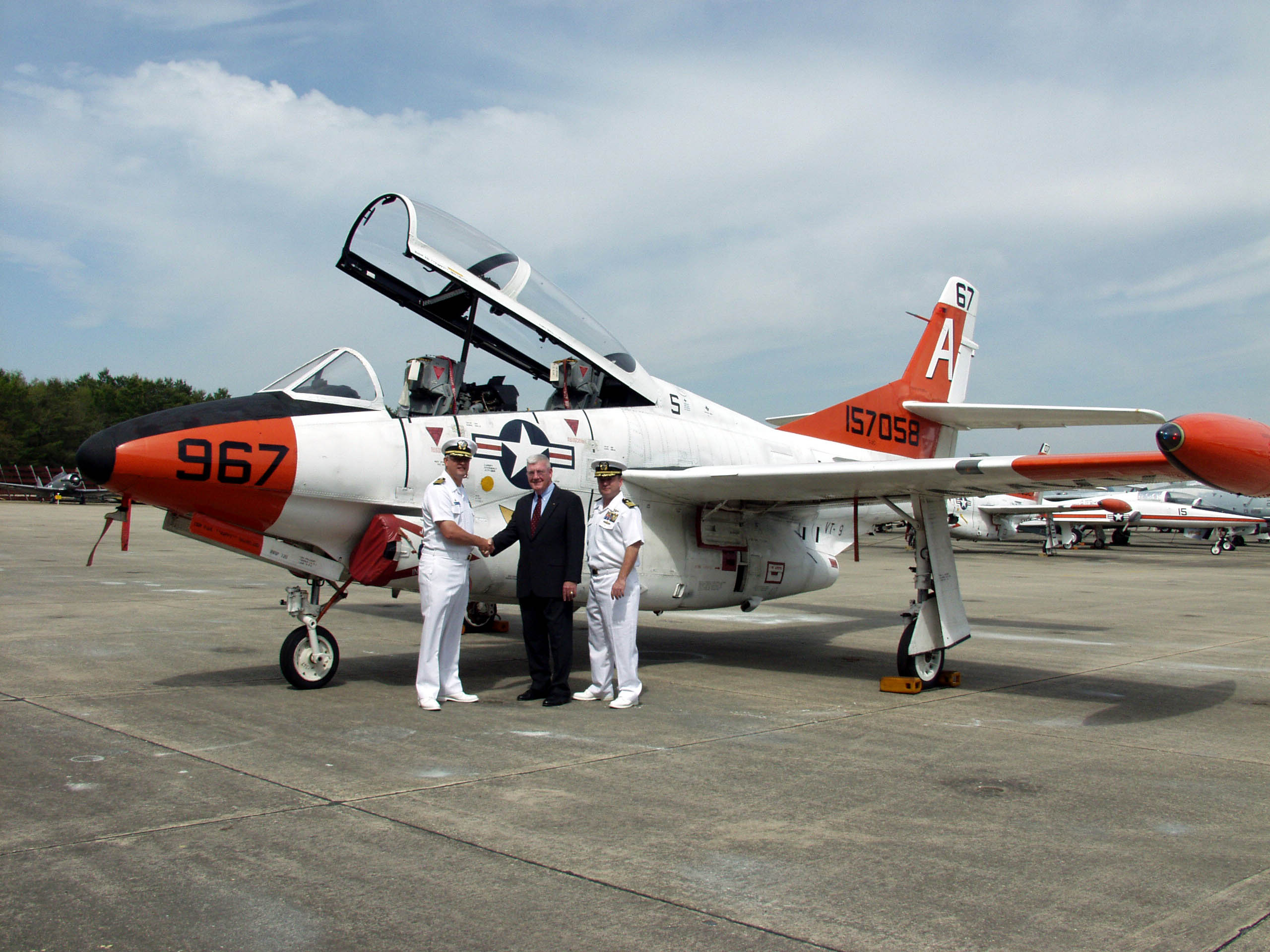 Naval Air Station Meridian, Miss. (Apr. 9, 2004) - Capt. Daniel Ouimette, Commodore, Training Air Wing One (TW-1), left, and Cmdr. Paul Shankland, right, Commanding Officer, Training Squadron Nine (VT-9), presents the last T-2C Buckeye to make a carrier arrested landing to Denis J. Kiey, Public Relations Director of the Naval Aviation Museum Foundation. The T-2C Buckeye is a tandem-seat, carrier-capable, all-purpose jet trainer with two turbojet engines and provisions for gun pods, bombs or rockets under its wings. The Buckeye is being retired for newer, more modern training aircraft already in service. U.S. Navy photo by Ens. April Gunsallus. (RELEASED)